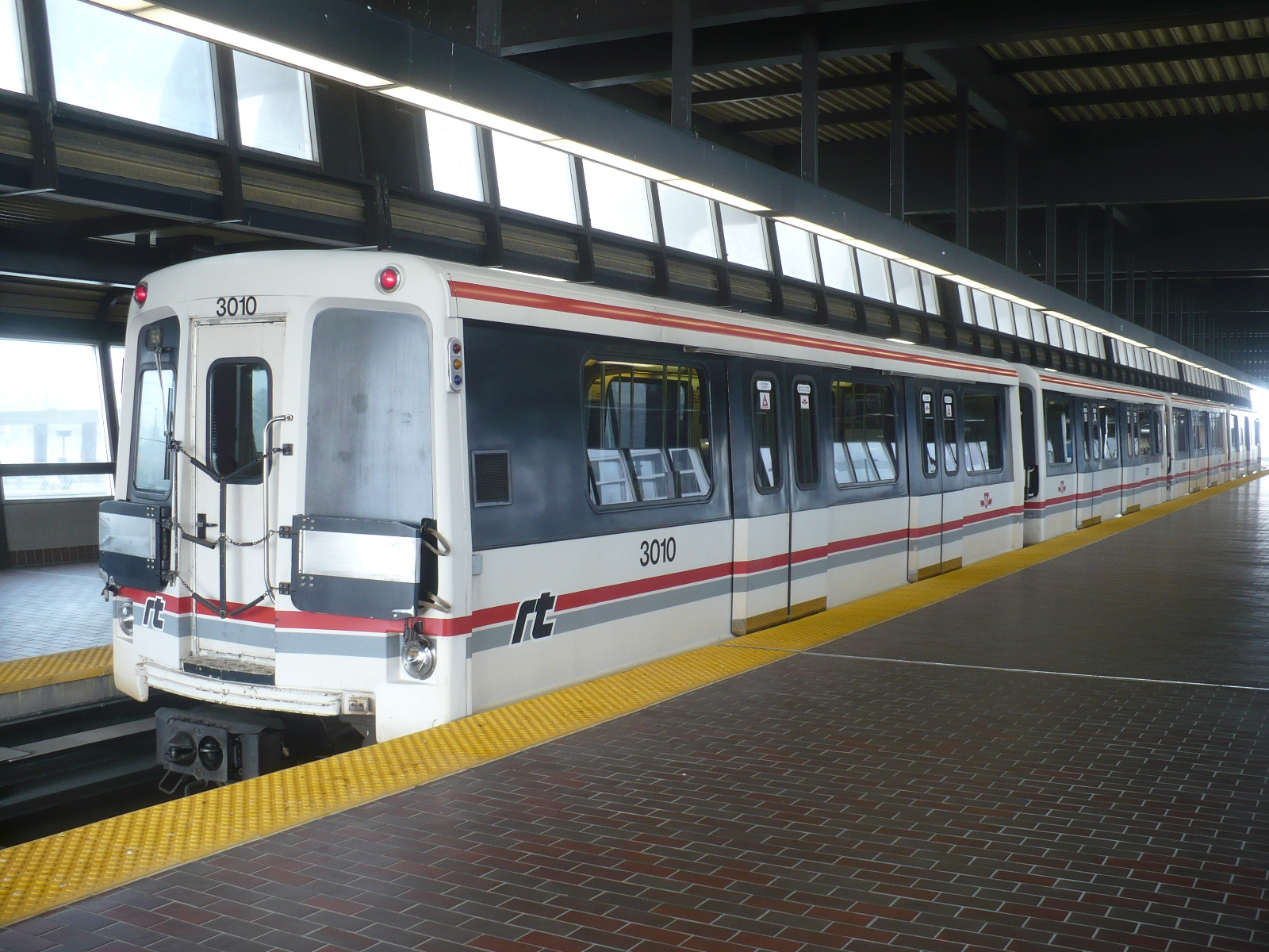 Kennedy station of the Toronto Transit Commission. This is the SRT platform on the upper level